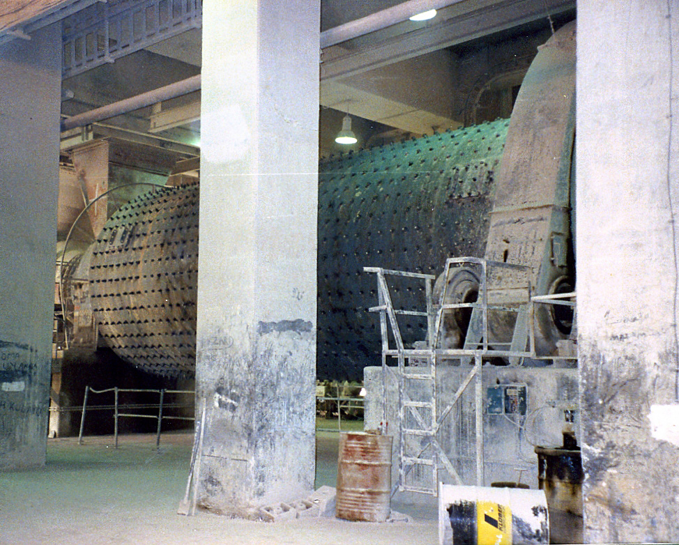 An air-swept ball mill used to make dry process raw mix in cement manufacture